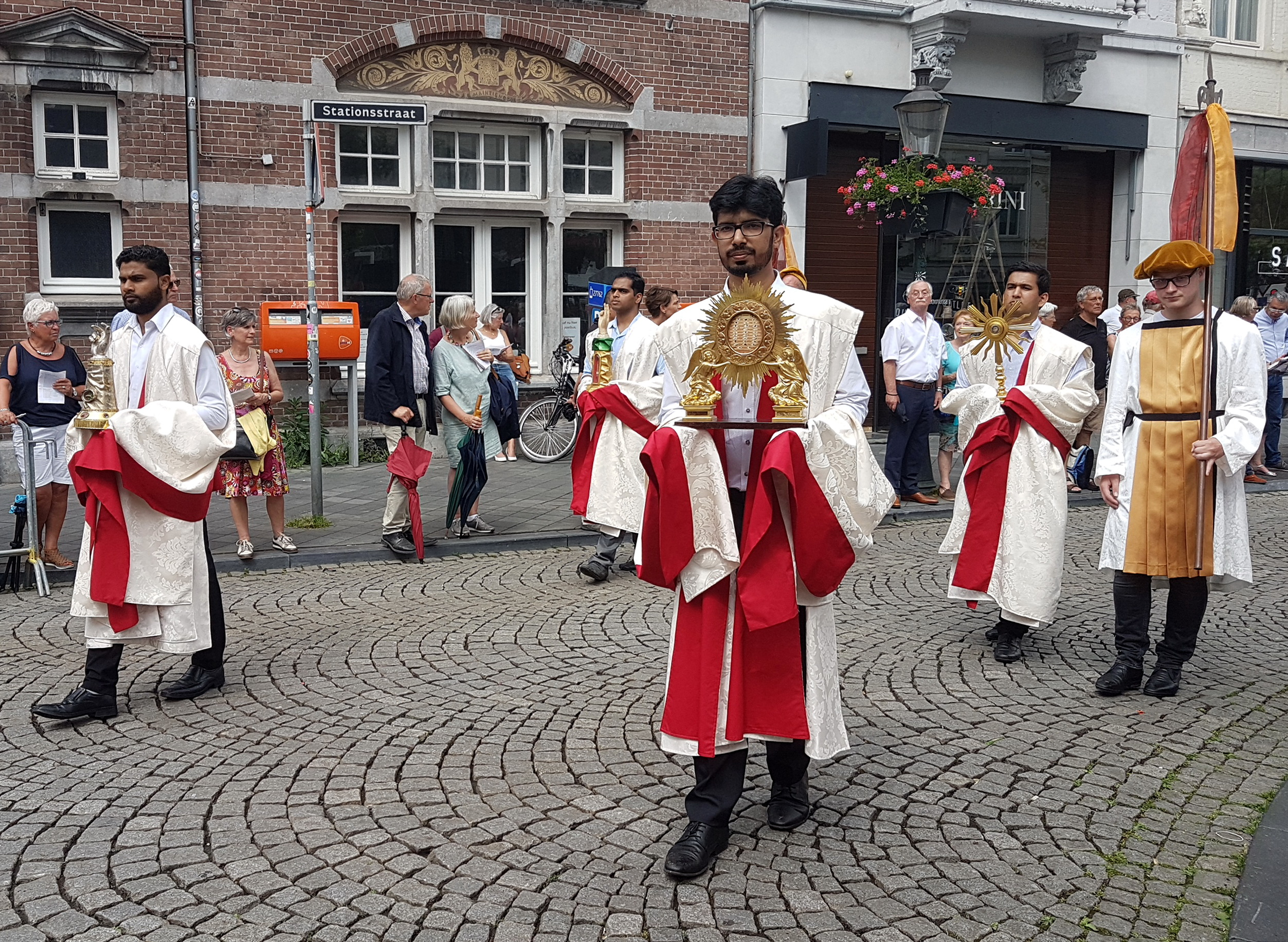 Participants in a historic religious procession during the 2018 Heiligdomsvaart (Relics Pilgrimage) in Maastricht, Netherlands. The history of this seven-yearly catholic pilgrimage goes back to the Middle Ages. The first 'modern' version took place in 1874. On both Sundays of the 10-day festival, a procession is held in which the main relics and other devotional objects are exhibited. This photo was taken in Stationsstraat during the (first) procession on Sunday 27 May 2018. This particular group has the task of carrying and escorting some of the 'minor' reliquaries of the Maastricht churches.